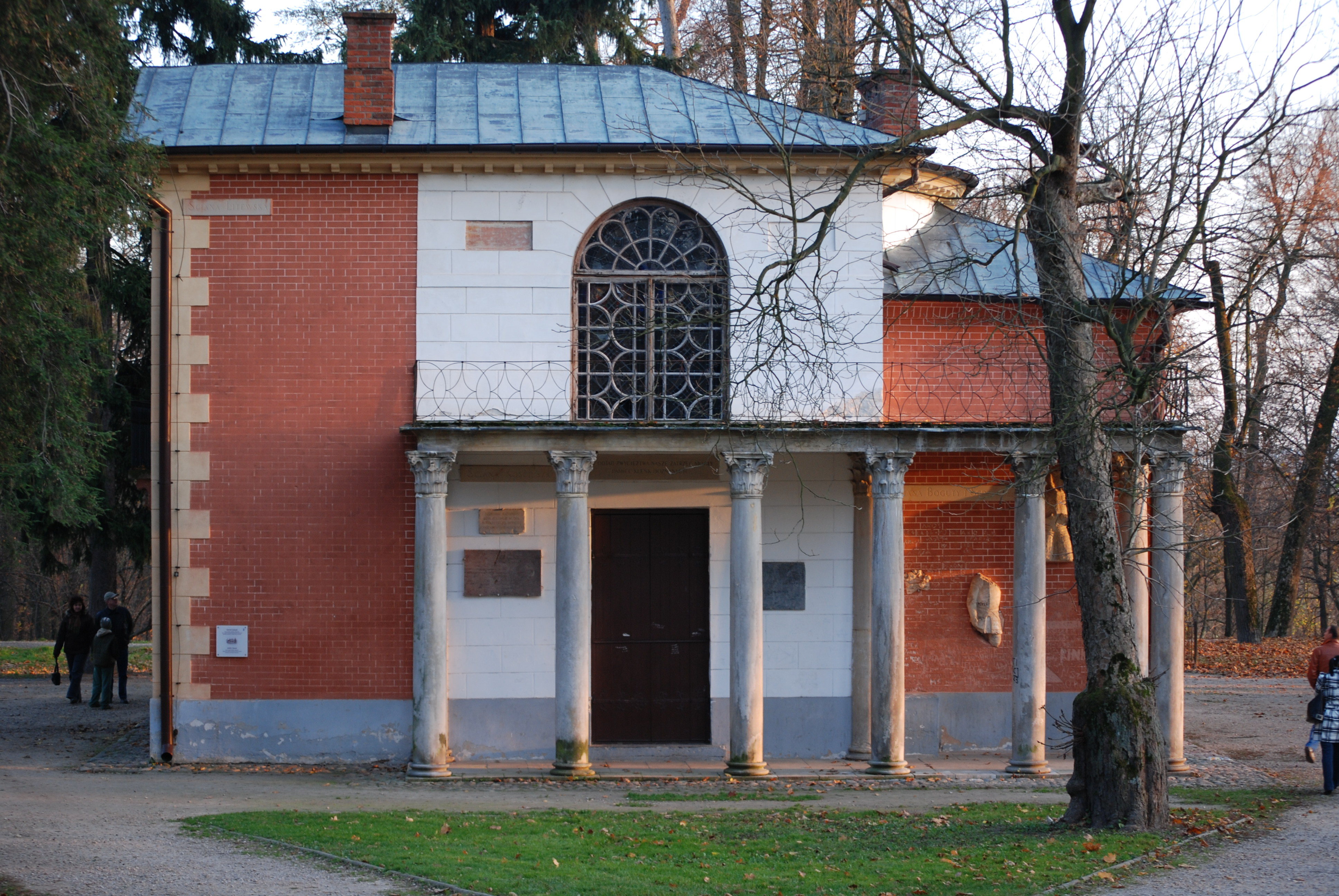 Gothic House in Pulawy, Poland, 1809, in neogothic style; view from the Czartoryski Palace.